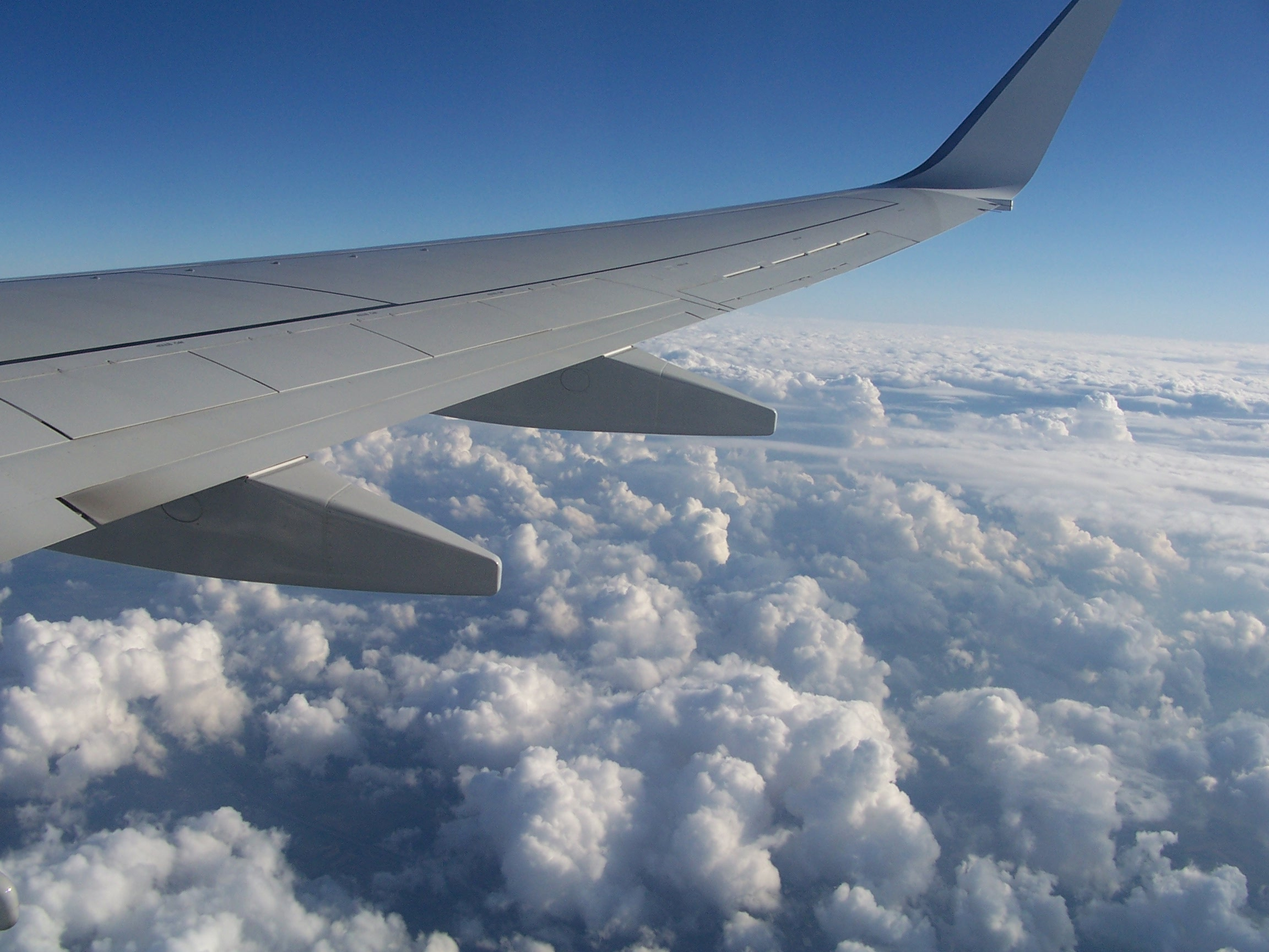 The wing of a Boeing 737-800 from Transavia Airlines